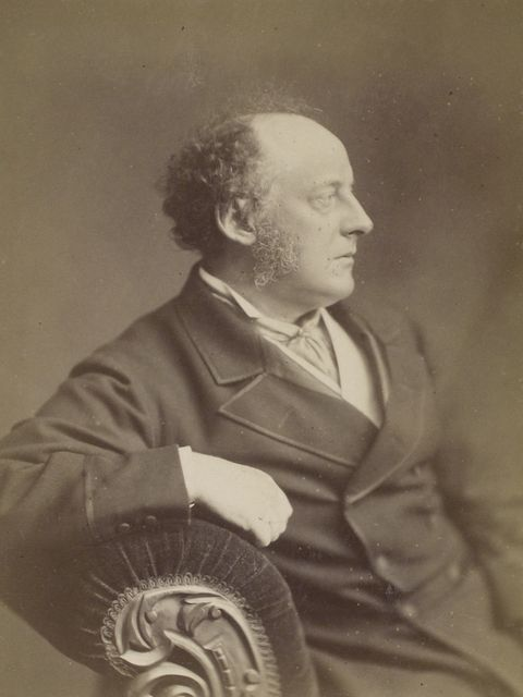 John Everett Millais (1829-1896), British painter and Pre-RaphaeliteOriginal caption: “Mr J.E.MILLAIS.R.A. LONDON STEREOSCOPIC COMPy COPYRIGHT.”